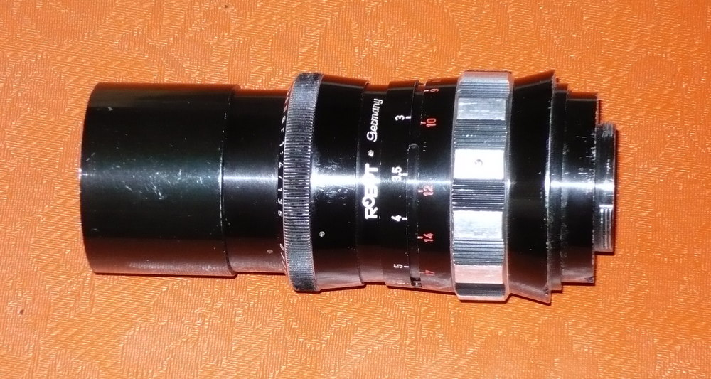 Robot Tele-Xenar 135mm lens